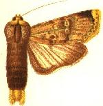 PLATE CCIII.